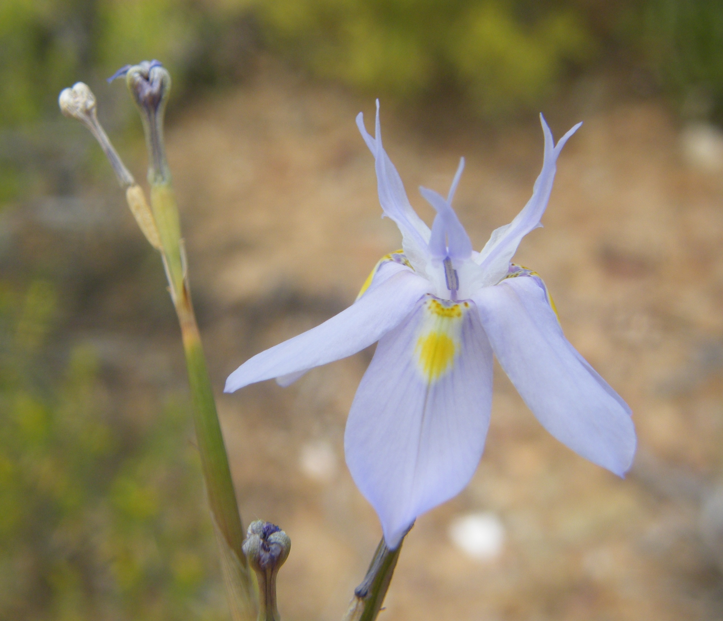 Moraea bipartita